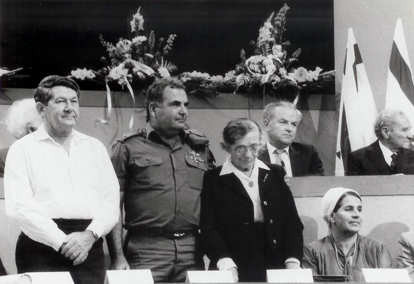 Levi Mann accepting ceremony